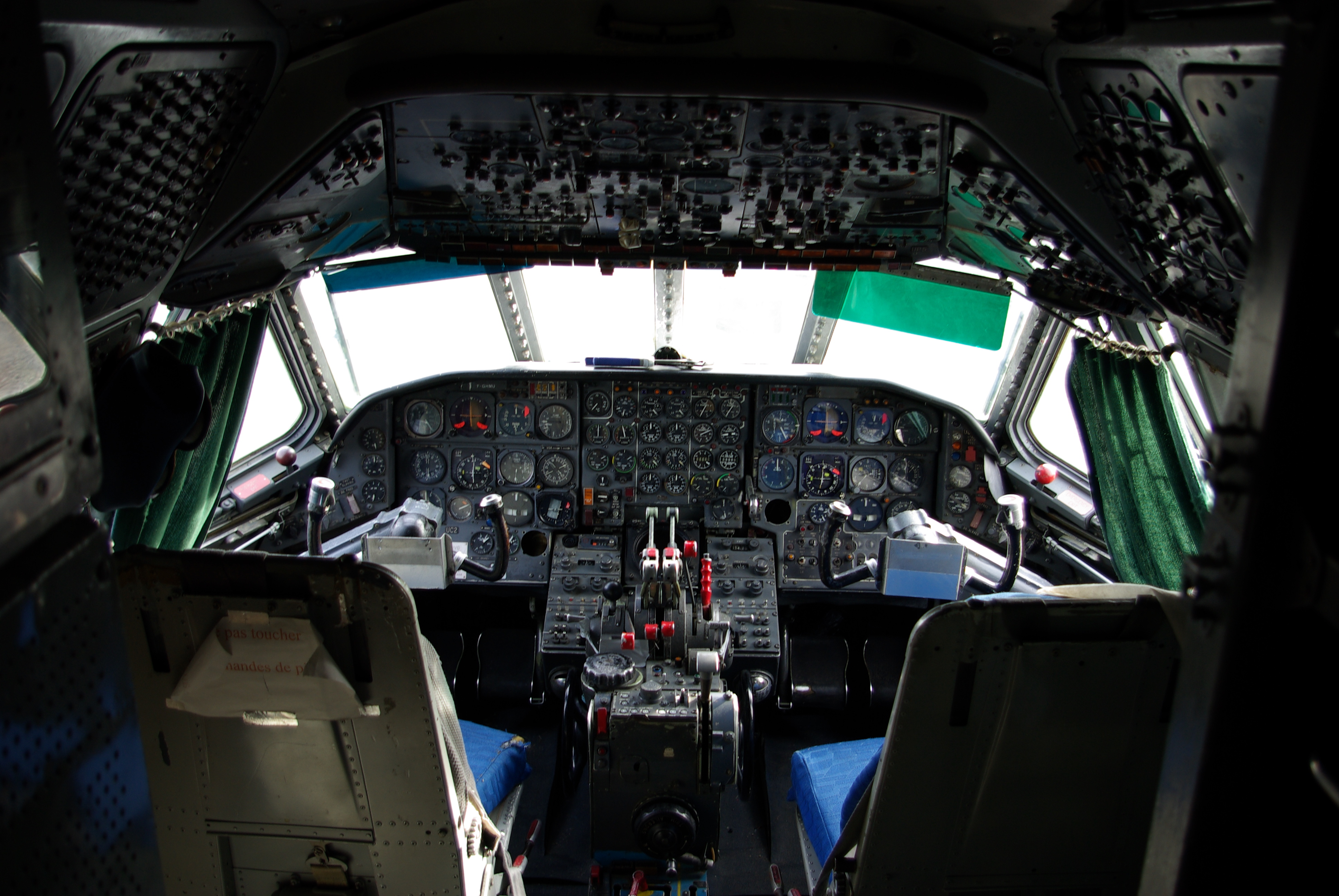 Cockpit of the Sud-Aviation Caravelle being restored to the musée des ailes anciennes (Toulouse, France)